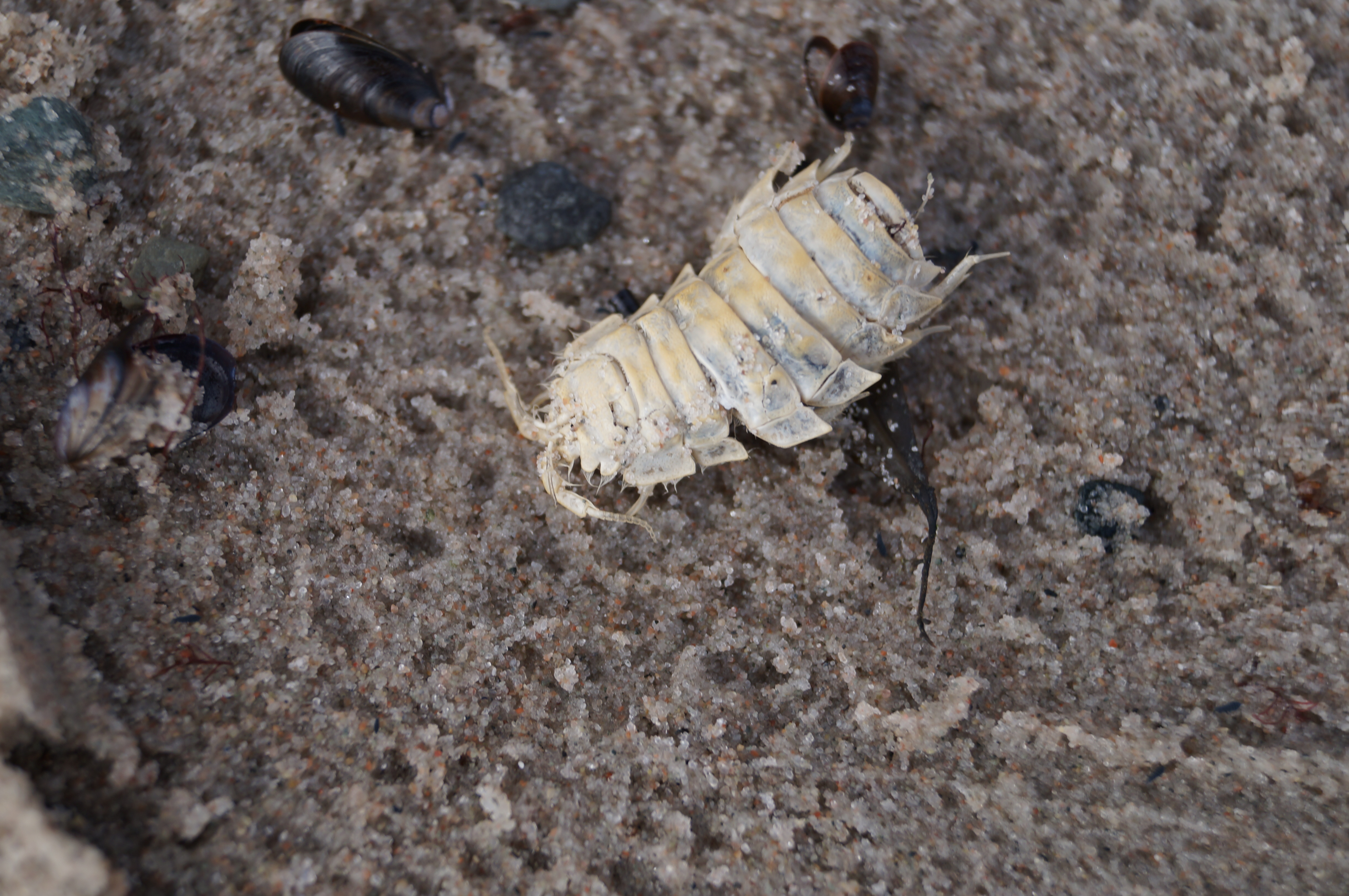 The exoskeleton from an unidentified Isopoda, found on a beach on Öland, Sweden.